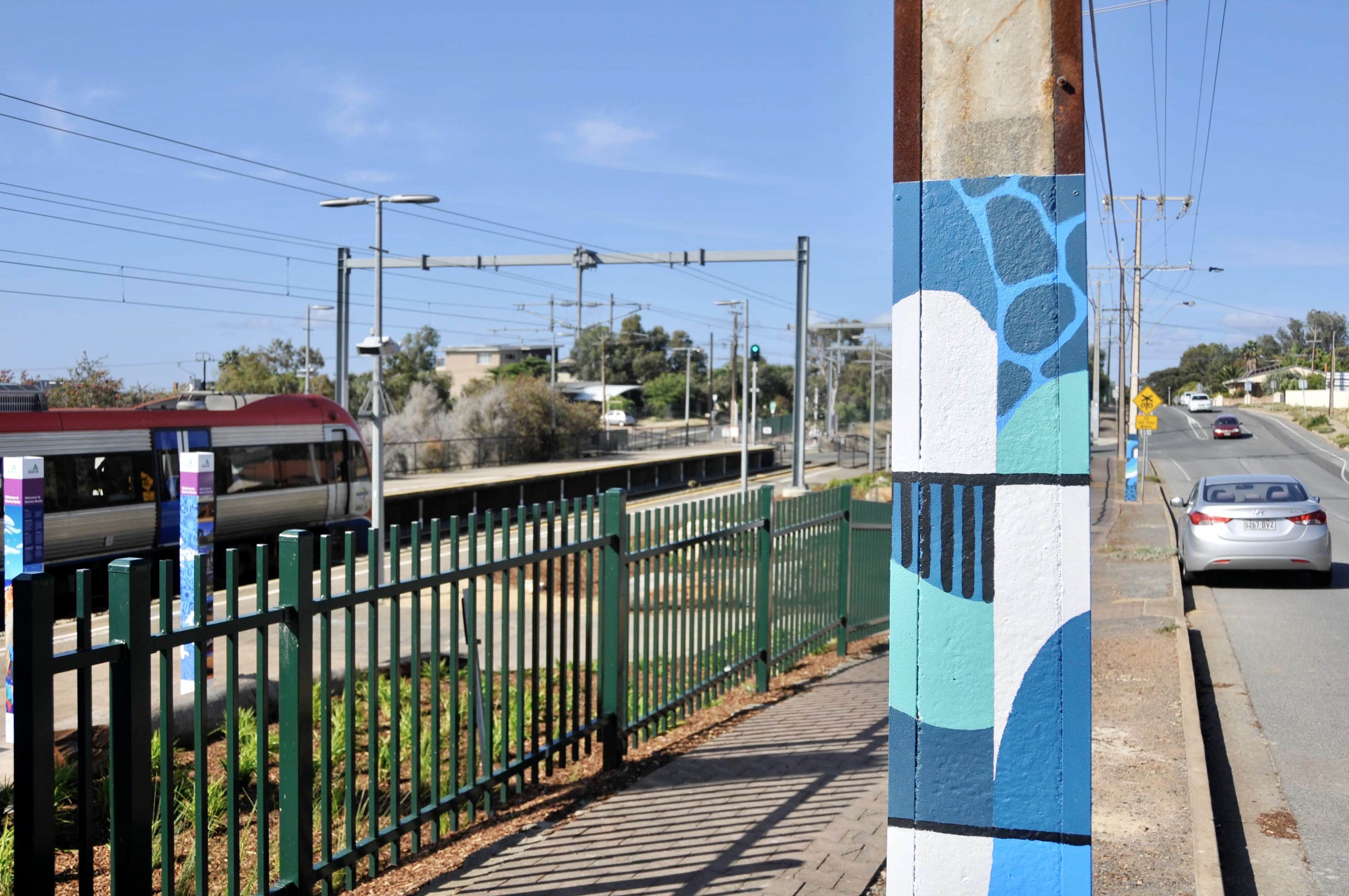 Artwork paid for and organised by the Marino community, outside Marino Rocks station.